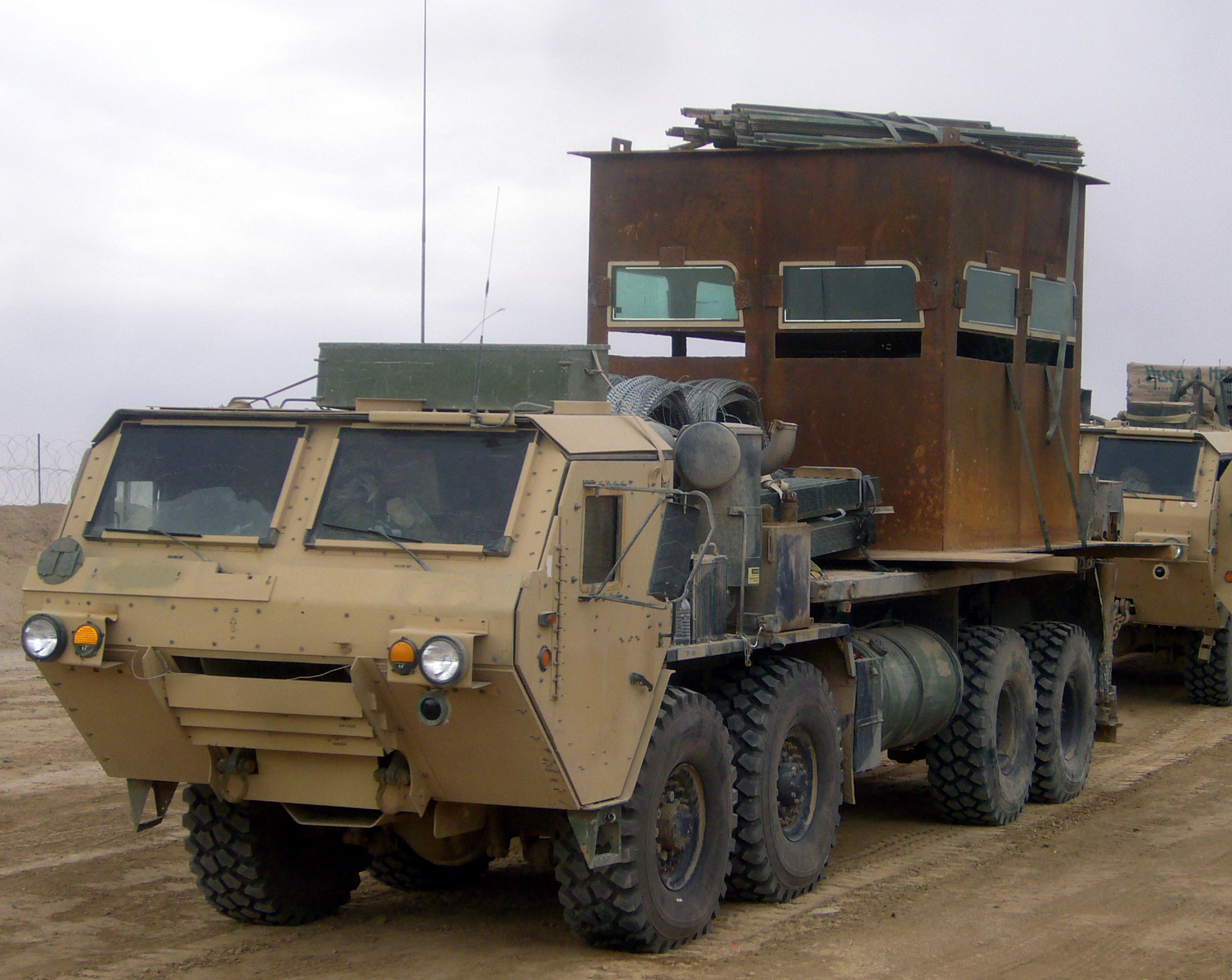 taken by Andy Patton 28mar07 Category:images of vehicles